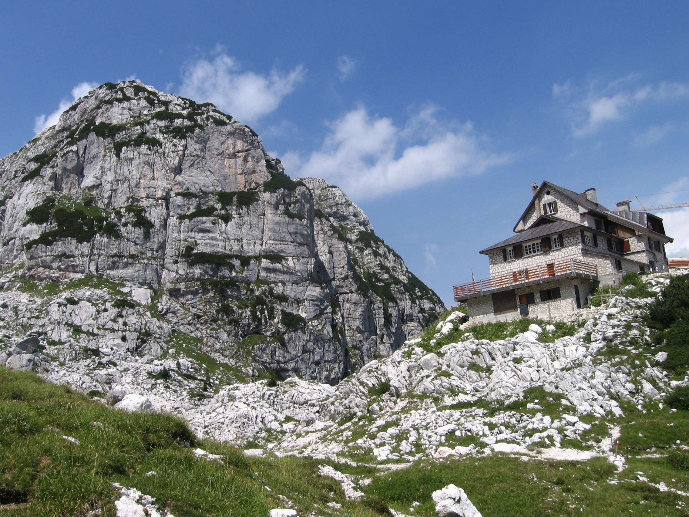 Celso Gilberti hut, with nearby Mt. Bela Peč / Bila Pec, Italy